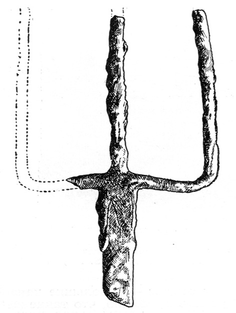 Drawing of Urartian fork.